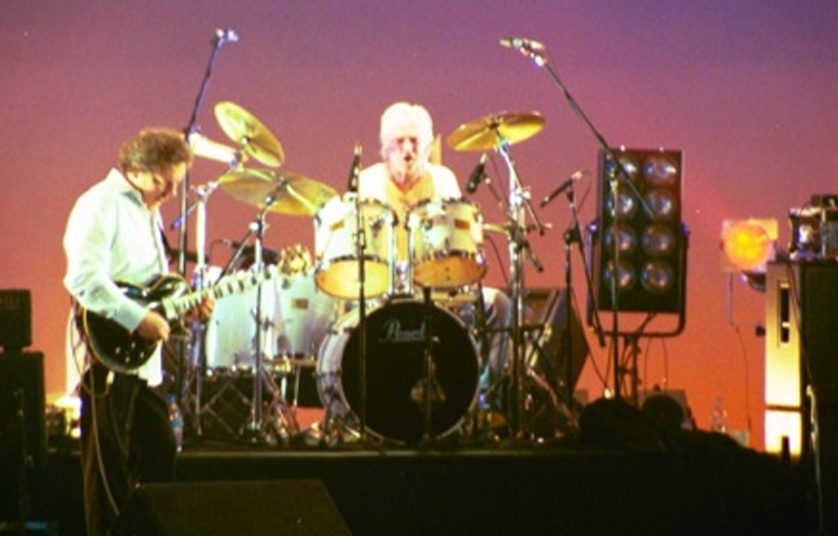 Guitarist, vocalist, Mario Millo and drummer, Alex Plavsic from Sebastian Hardie performing live in Japan